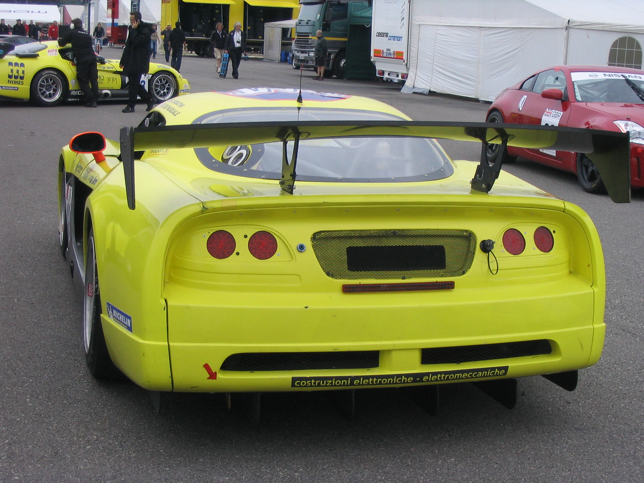 Dodge Viper Competition Coupe driven by Gabriele Sabatini and Filippo Mancini at the FIA GT3 European Championship 2008 in Oschersleben. The car stand in the paddock waiting for the beginning of the training saison.